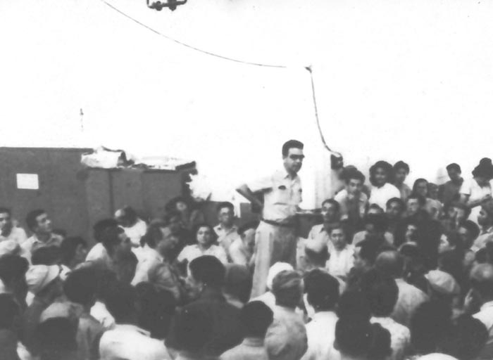 Econimy of Israel